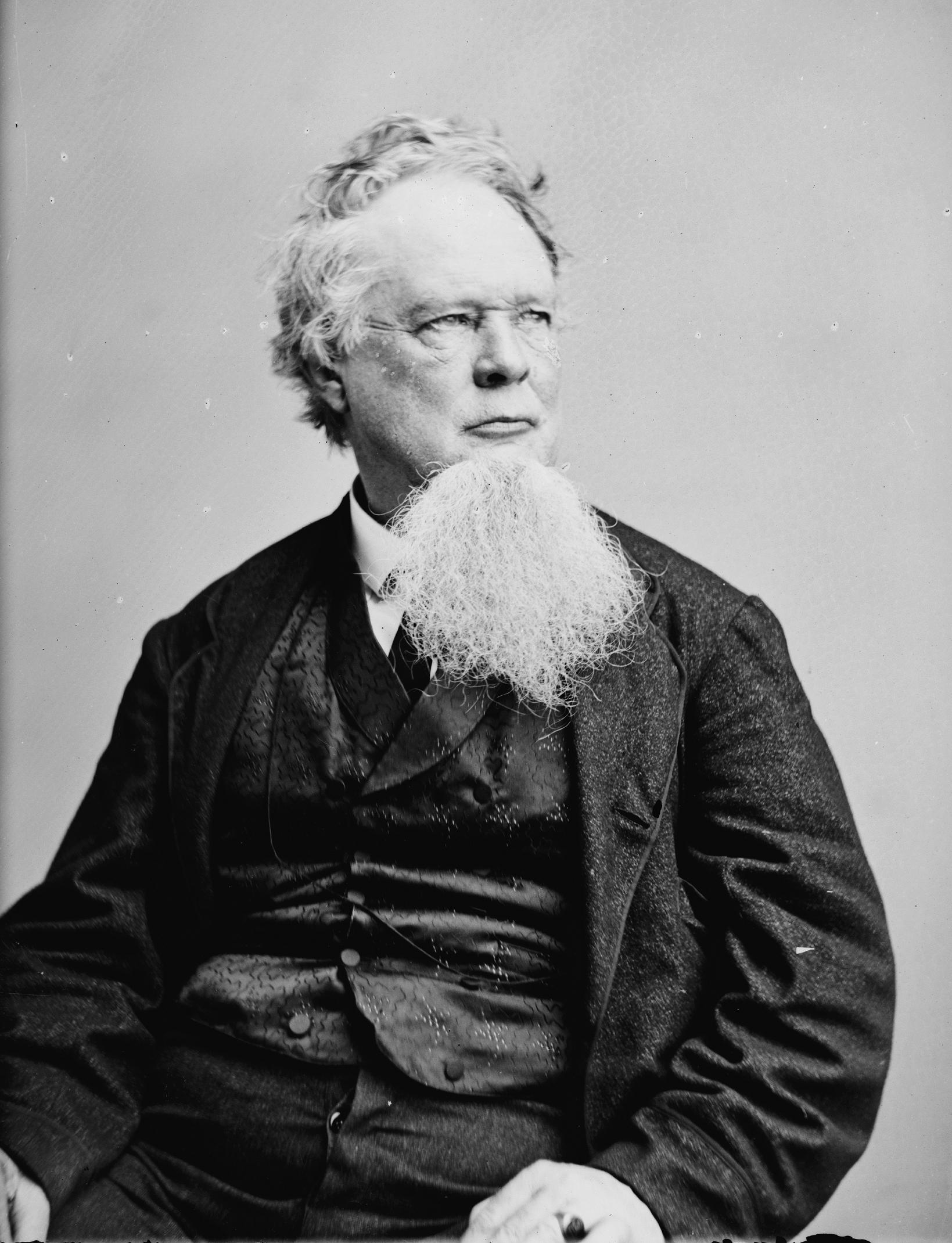 William Gilmore Simms. Library of Congress description: "Sims, Wm. Gilmore Sims? (Poet)".